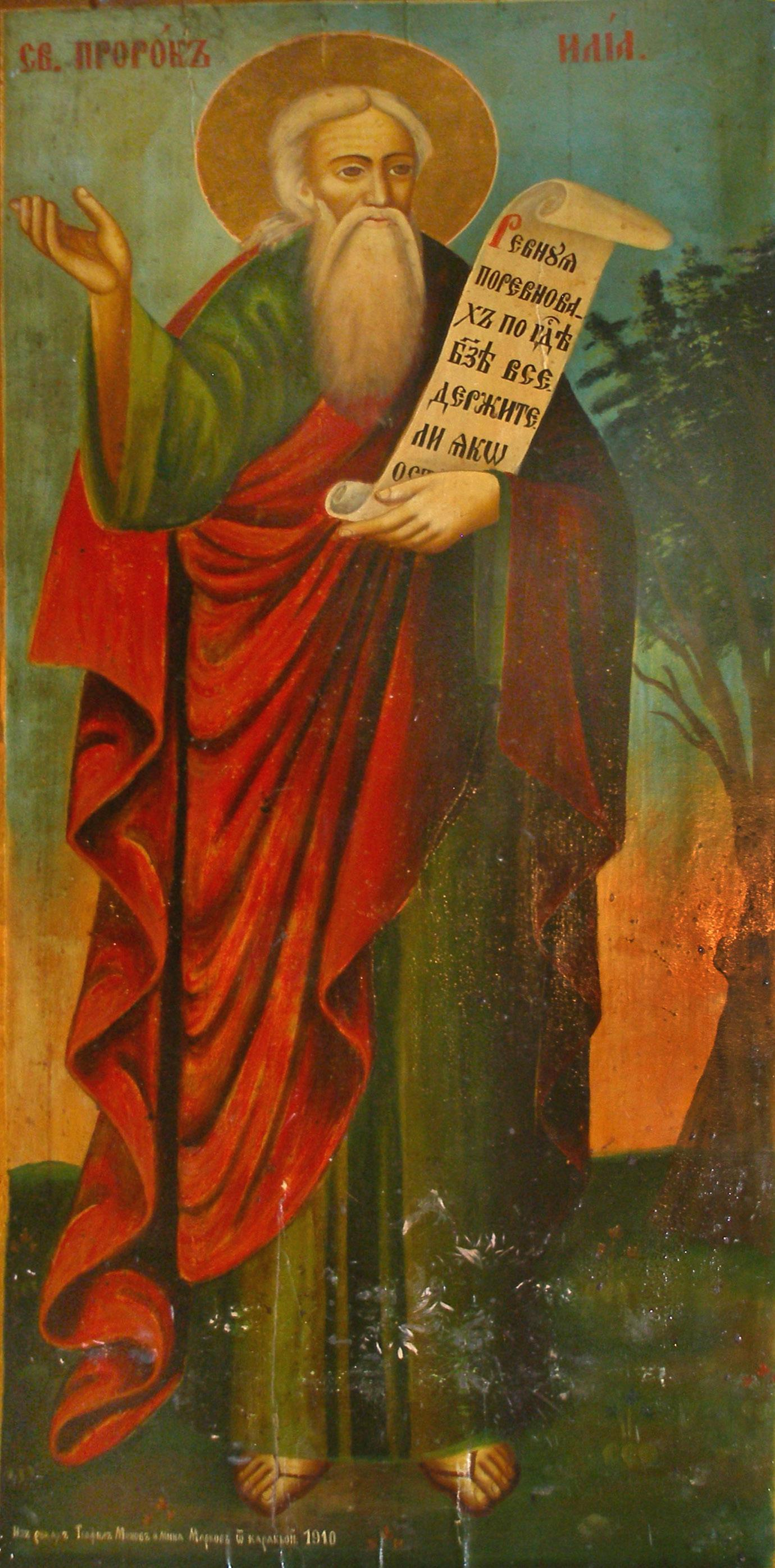 Saint Elijah Church in Belasitsa Freco